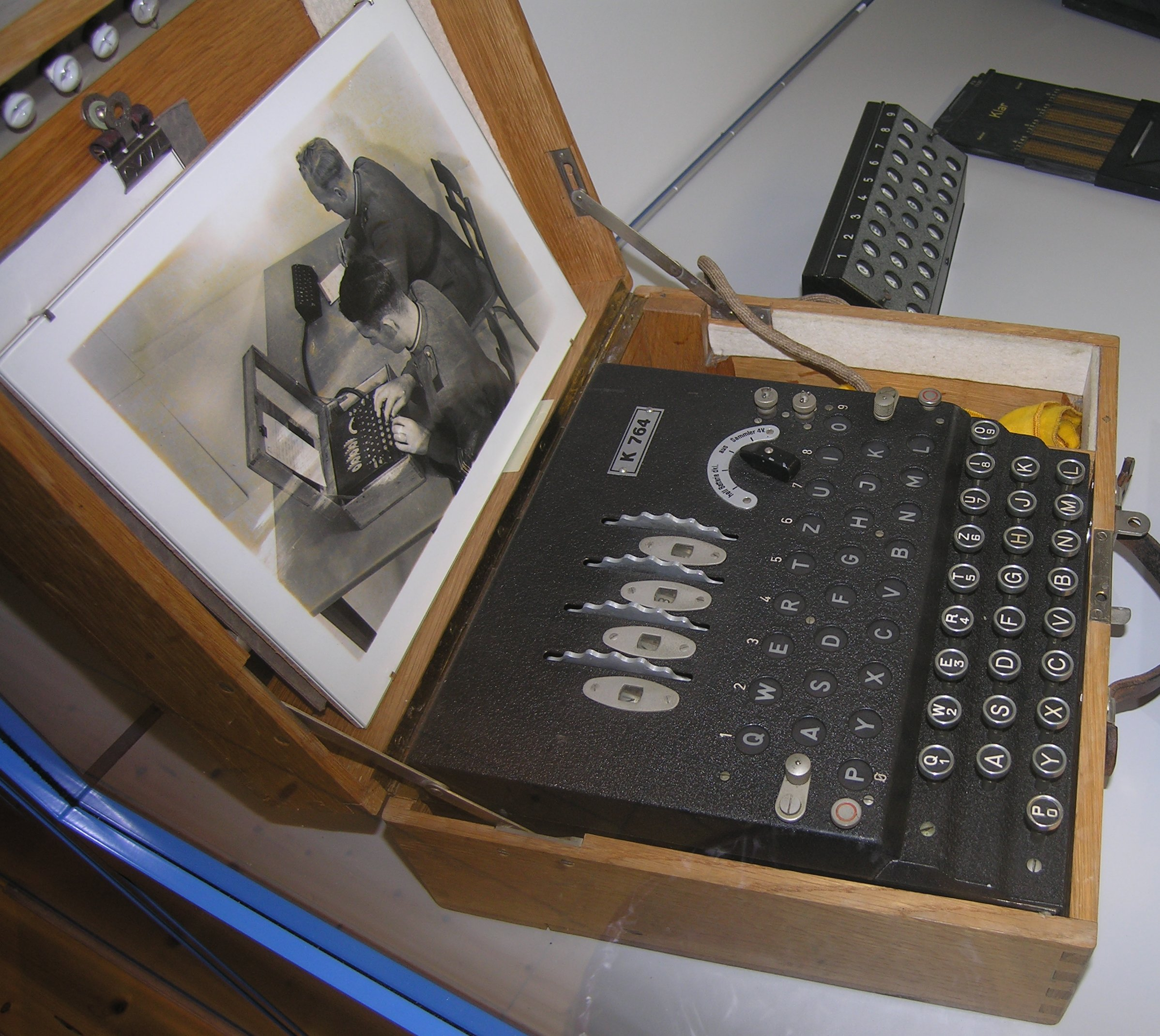 The four wheel Swiss Enigma A/27. Made in Germany, such machines were submitted to Switzerland between 1938-1942. Swiss specialists were newly replacing the encryption code and all electric wiring. Picture taken in the military aviation museum, Dubendorf (photographing seems allowed there) by Audrius Meskauskas, Audriusa 14:44, 10 February 2006 (UTC).